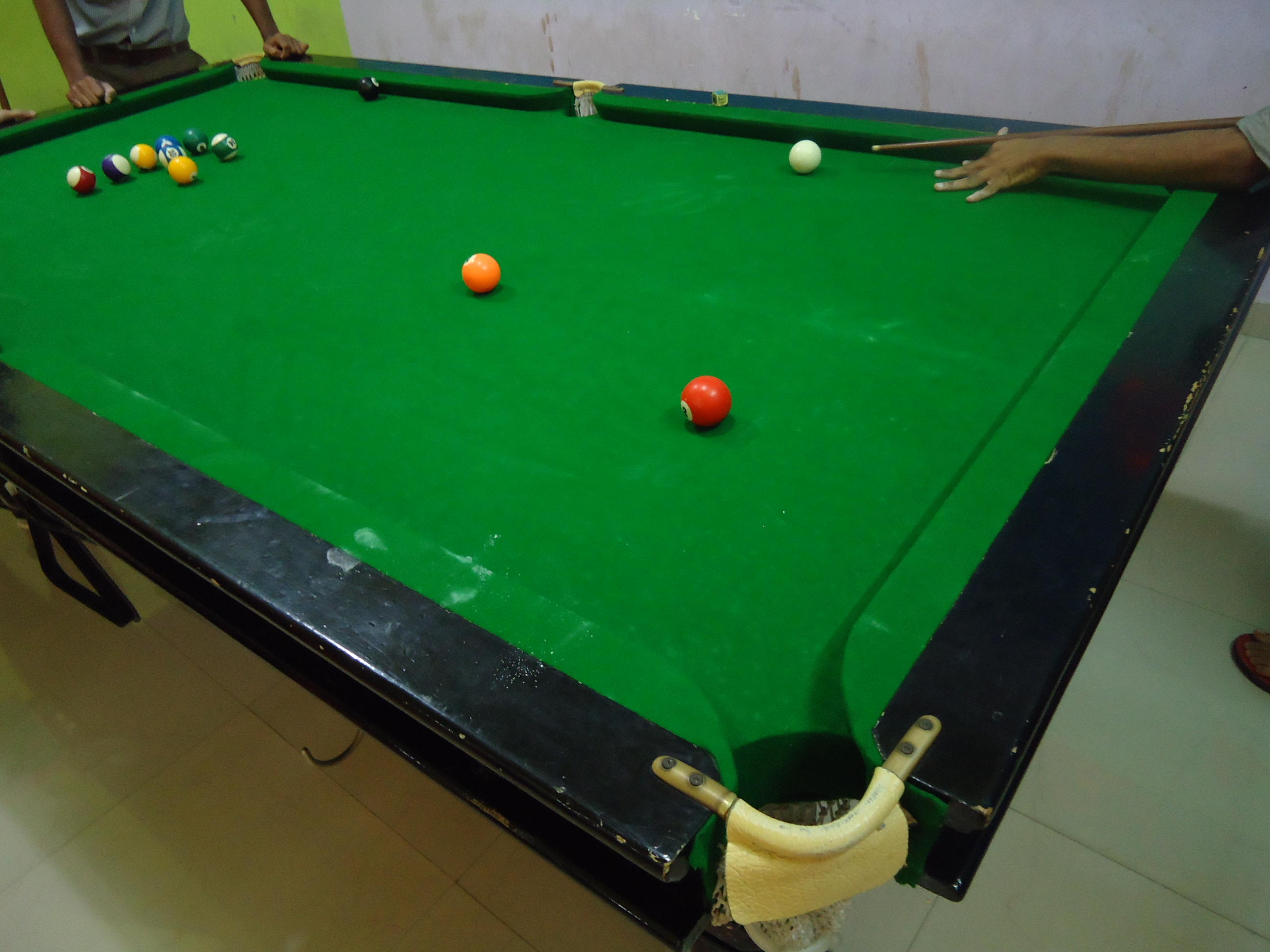 A Billiard Table